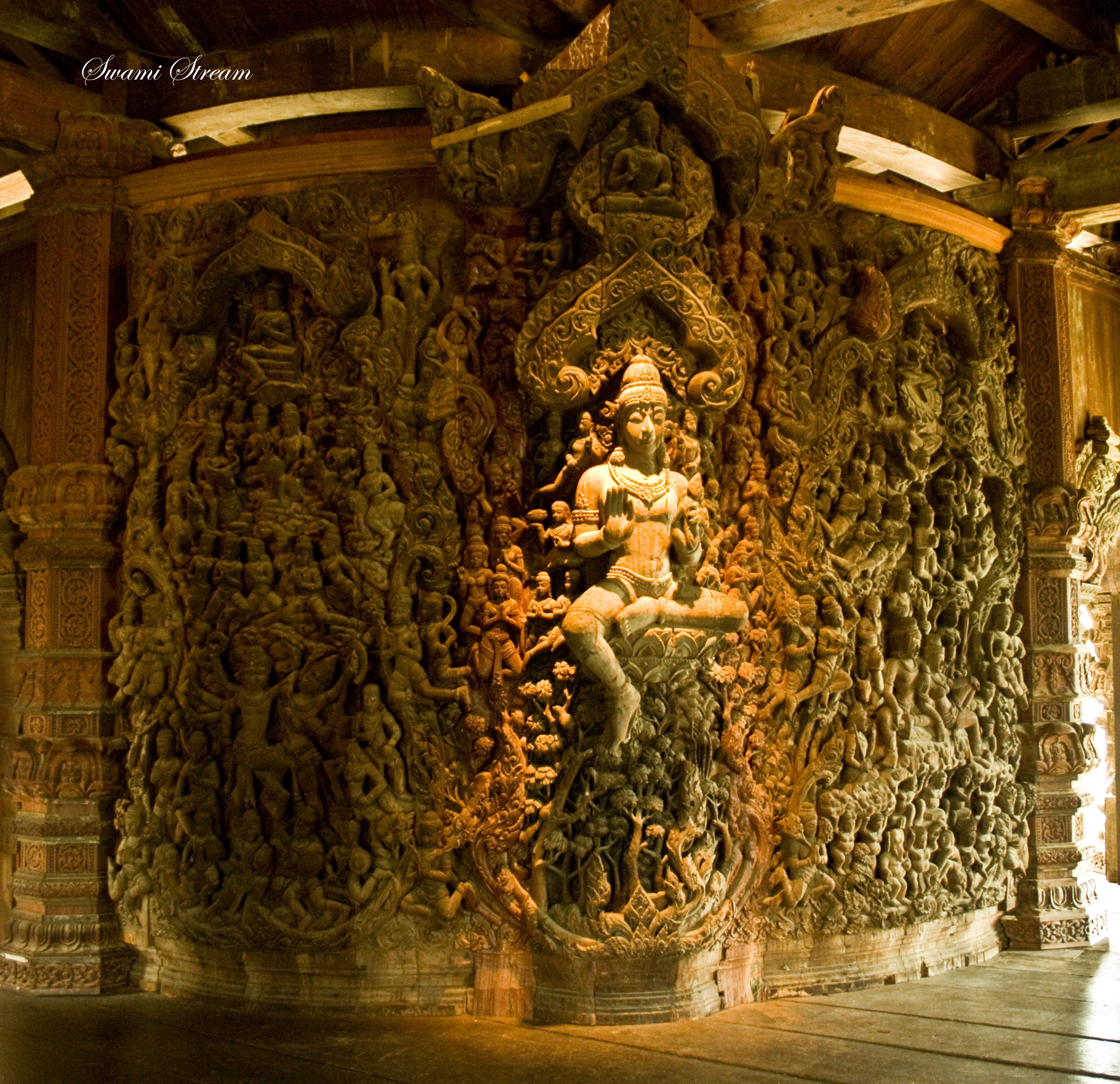 The Pavilion inside the Sanctuary of Truth